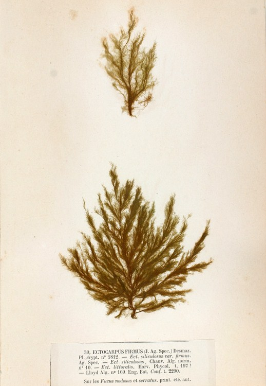 « Ectocarpus firmus » = Pylaiella littoralis